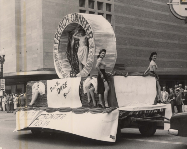 Parade float laballed "French Quarter" at Frontier Fiesta